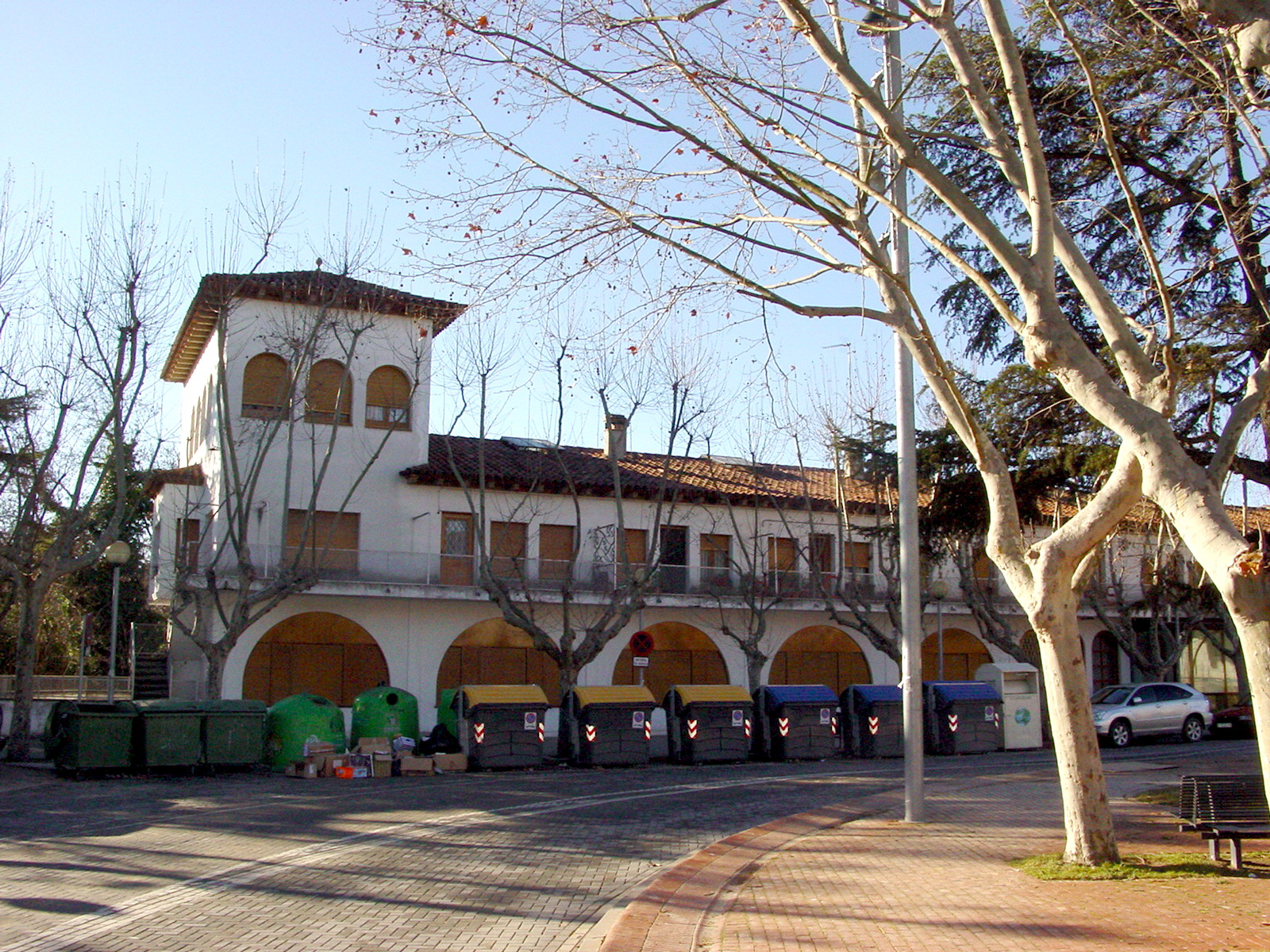 Catalan town of Bellaterra.